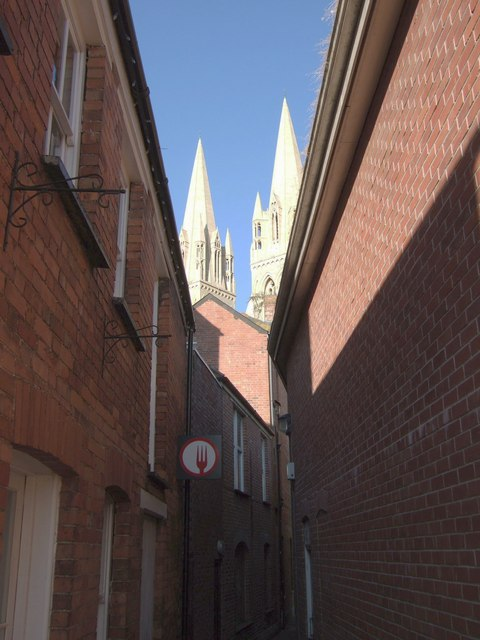 Tonkins Ope, Truro An alley that leads from the end of The Leats to King Street, with the spires of the cathedral overhead.